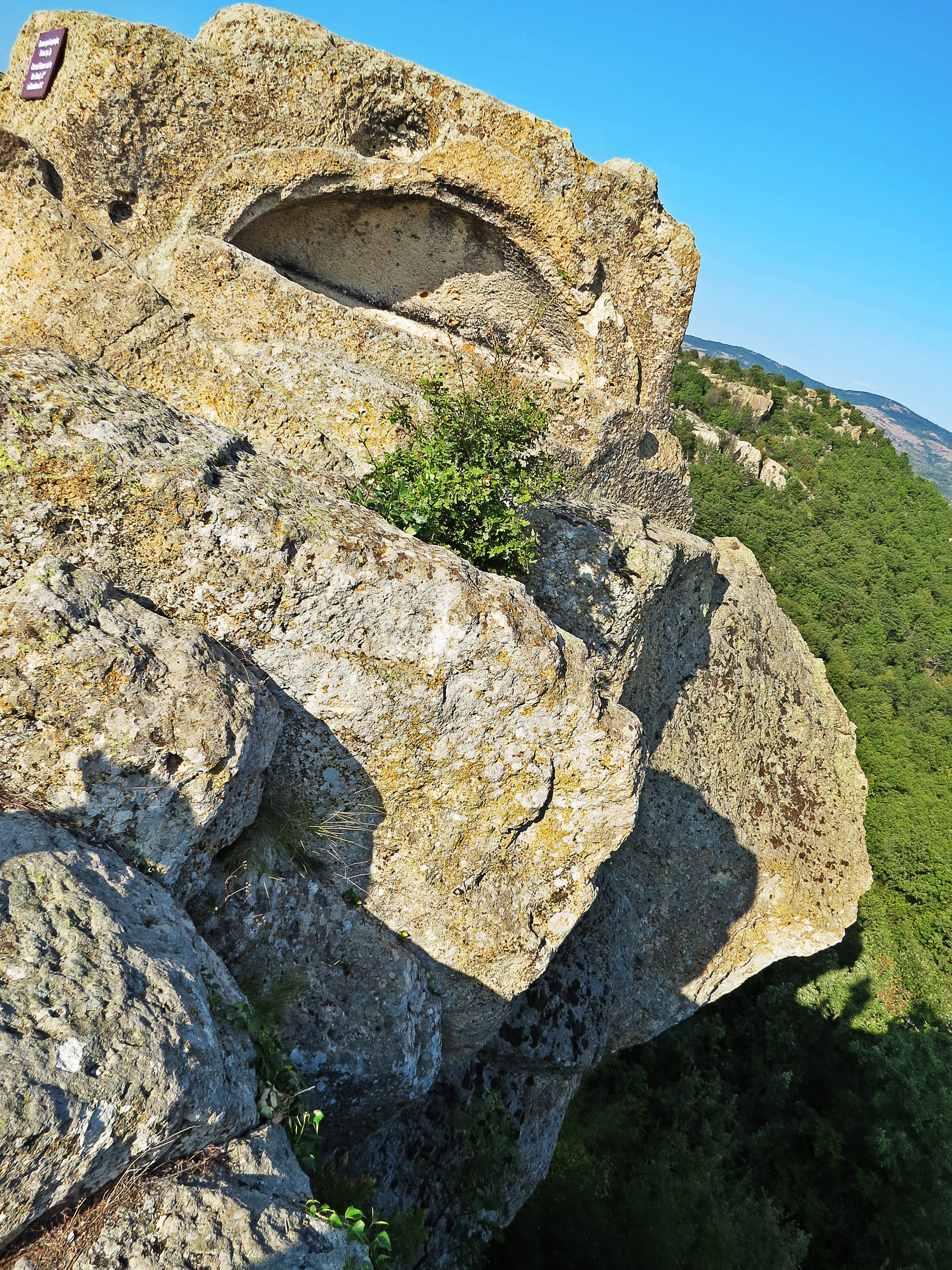 Tatul_sarcophagus_BG_1